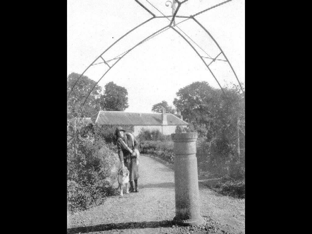 Balconie Castle garden and stables